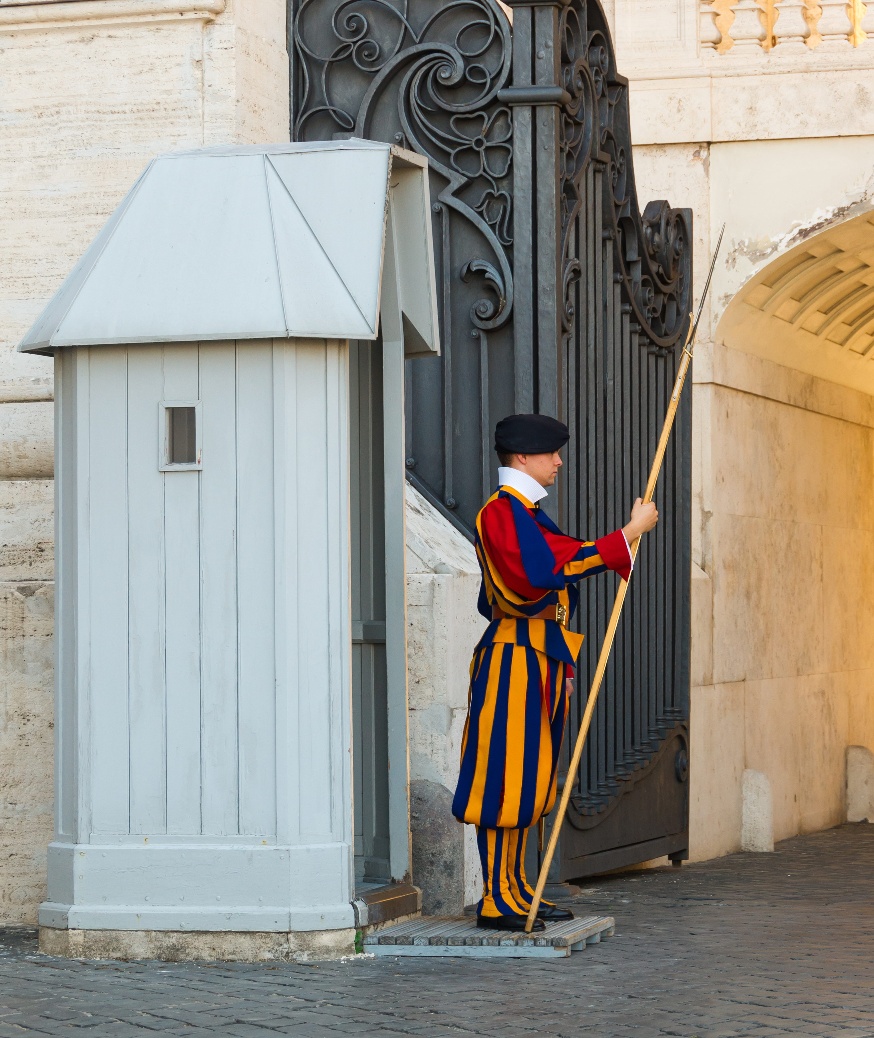 Sentry box and Swiss Guard, Vatican City.